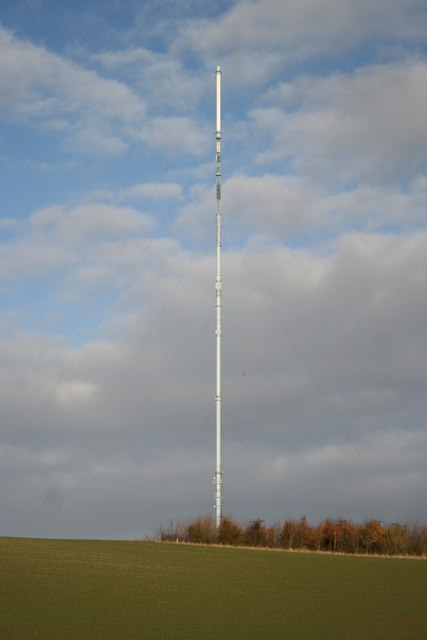 Belmont Belmont transmitter seen from near Benniworth